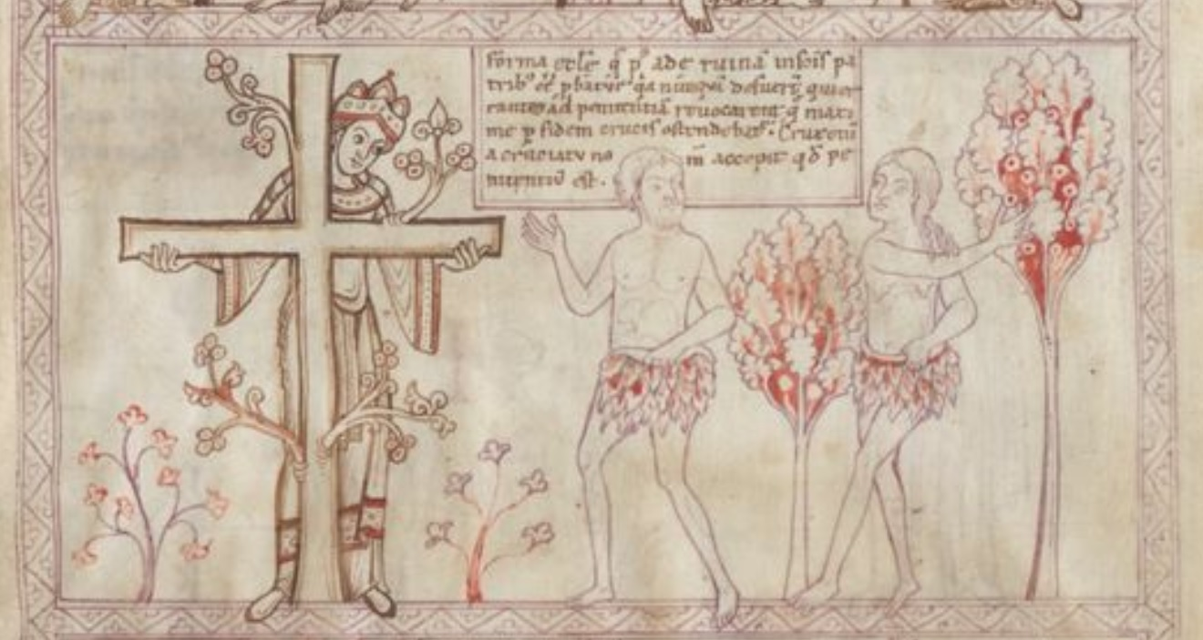 Miniature from the "Praise of the Holy Cross" Regensburg, twelfth century. The cross as the blooming tree of life. The text reads: "The Church offers to mankind the blooming tree of life of the cross."